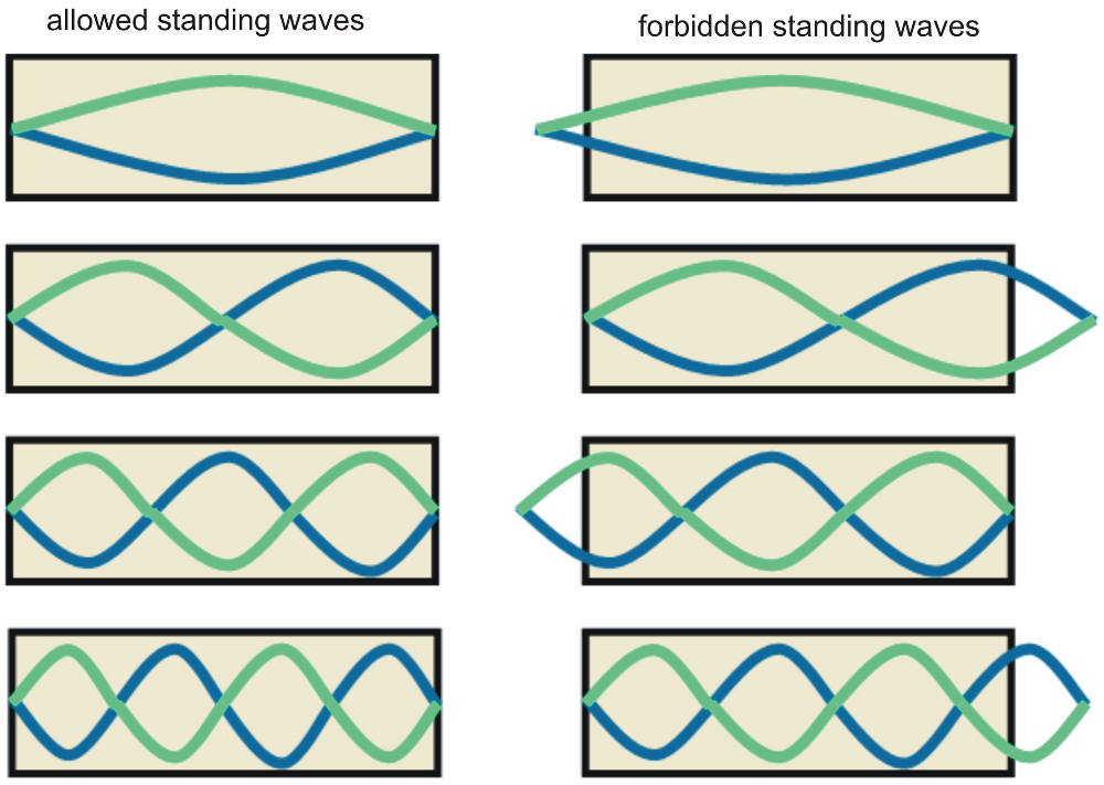 The standing waves on the left-hand side of the figure are allowed to form in the brown box, because they fit perfectly inside the box. In contrast, the waves on the right-hand side of the figure cannot form in the brown box because they do not fit perfectly inside the box.